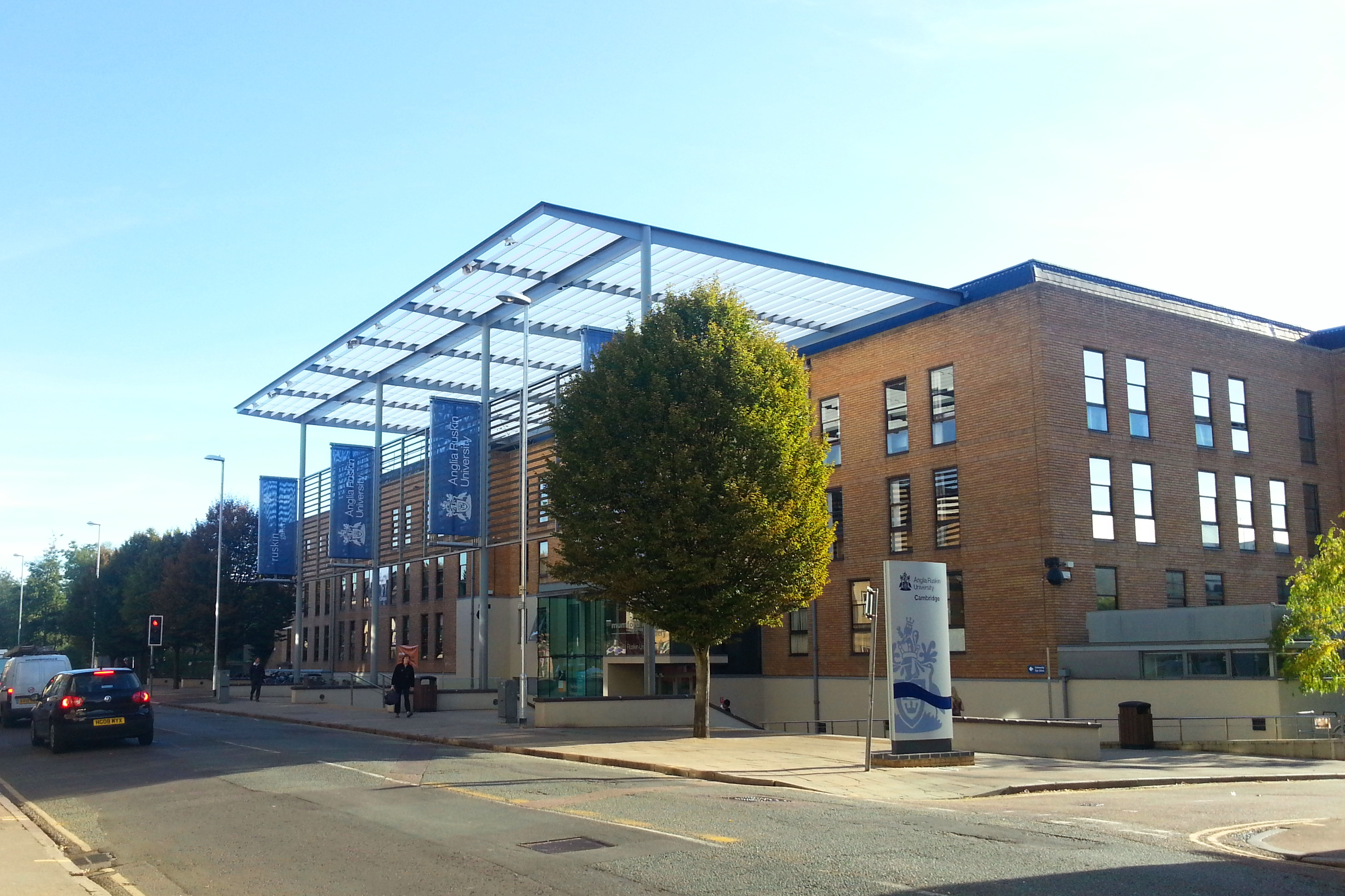 Front view of Helmore Building of Anglia Ruskin University Cambridge campus, is also the front face of the university itself as seen from East Road.